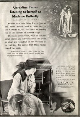 Geraldine Farrar in 1914 Victrola advertisement. "Geraldine Farrar listening to herself as Madame Butterfly."